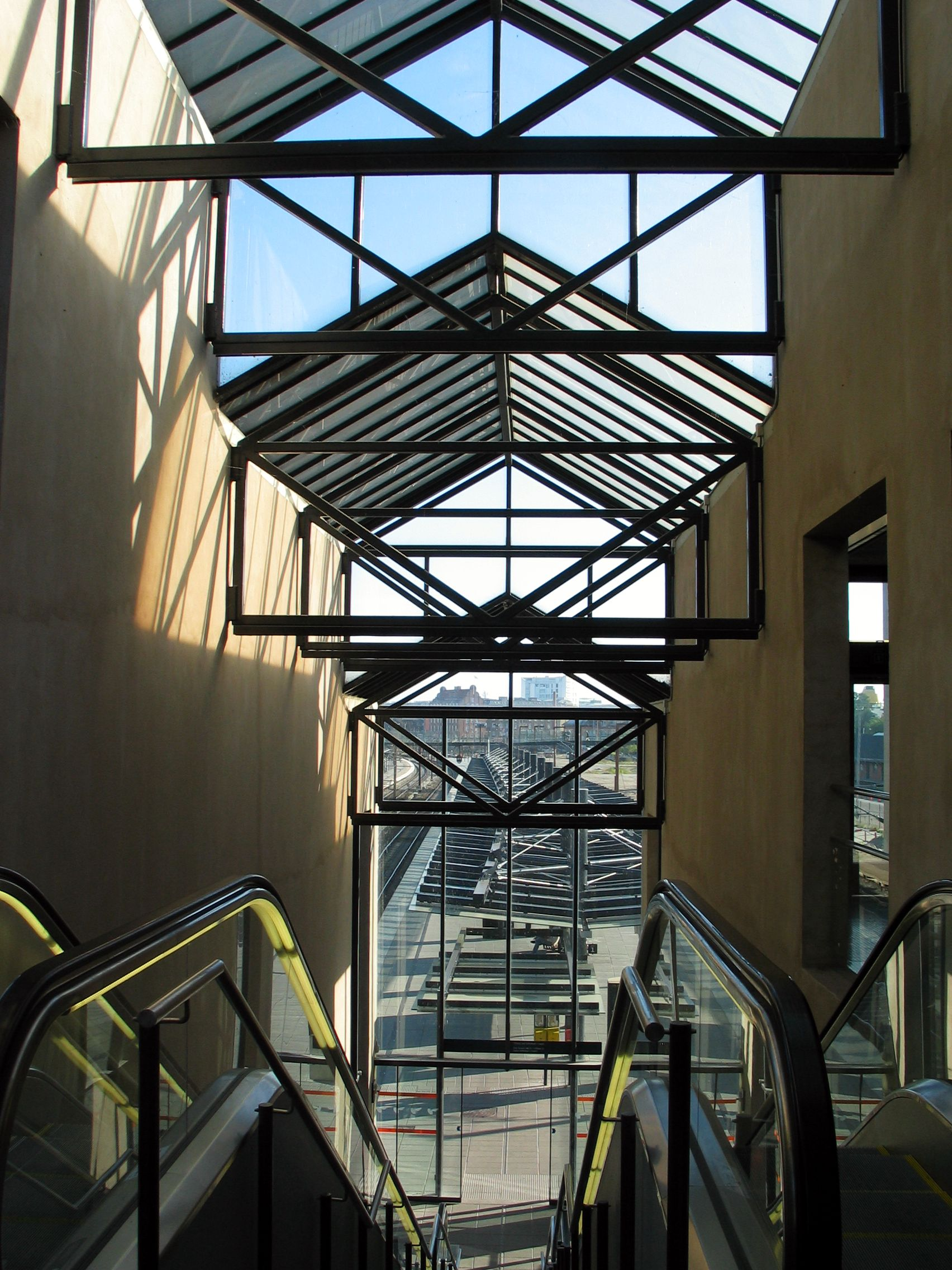 Interior of Østerport Railroad Station (Copenhagen, Denmark). New staircase to platforms